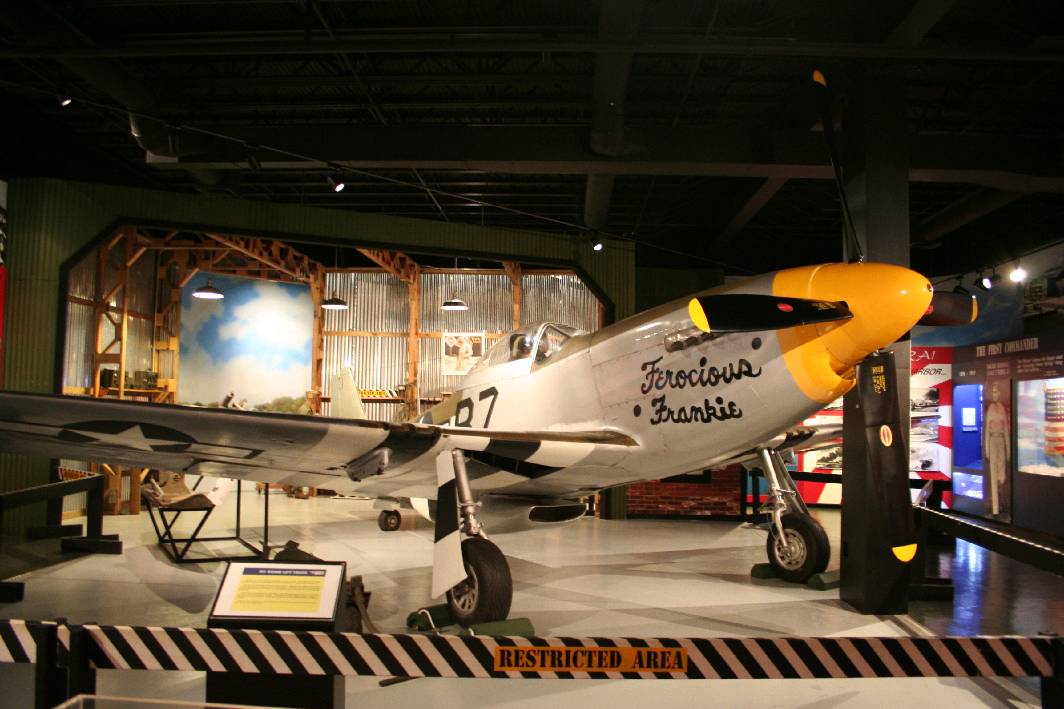 P-51D Mustang inside Robins AFB Museum of Aviation